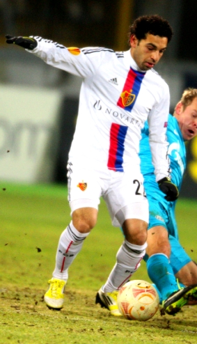 Mohamed Salah